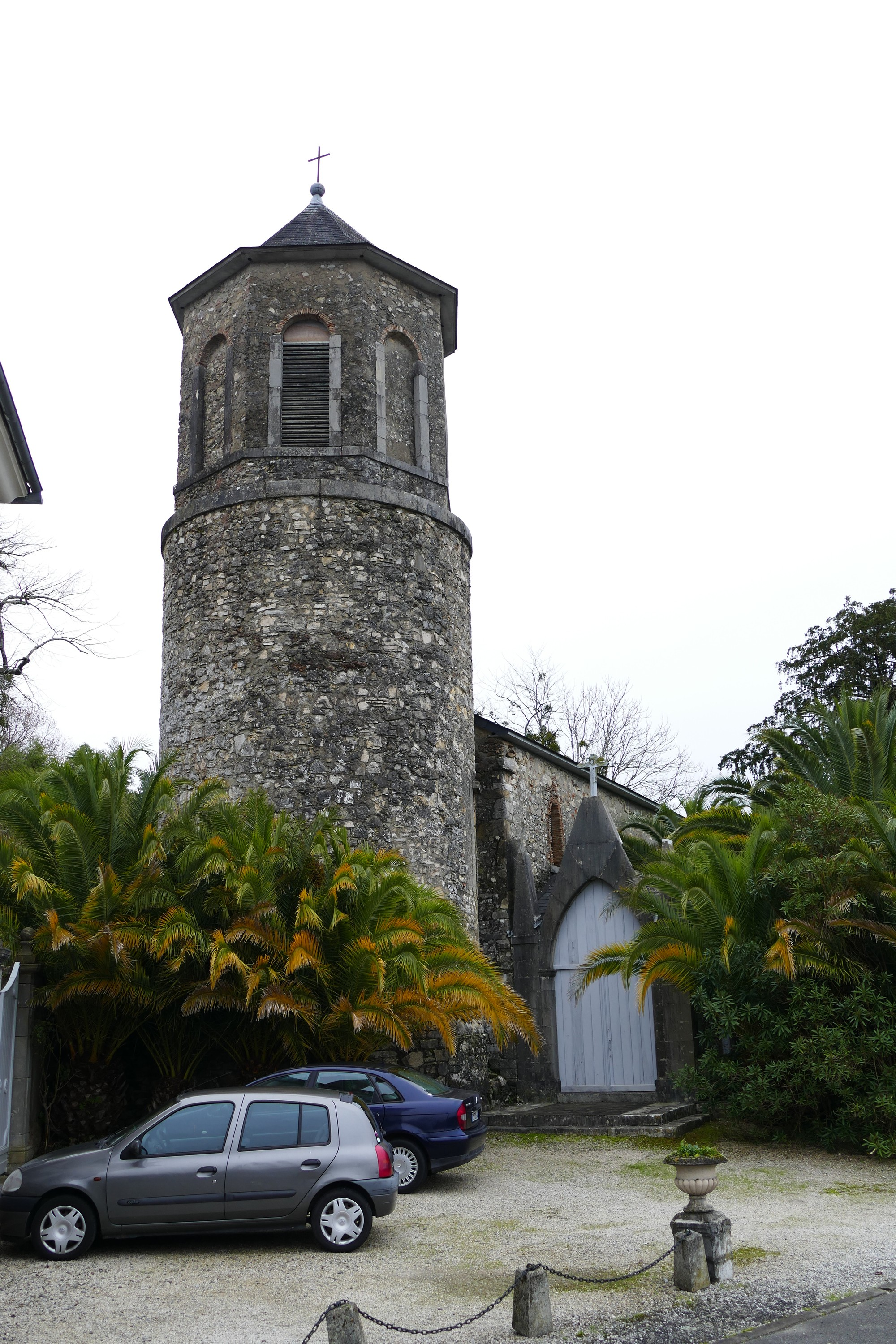 Saint-John-the-Baptist's chapel of Lescar in Puyoô (Landes, Nouvelle-Aquitaine, France).